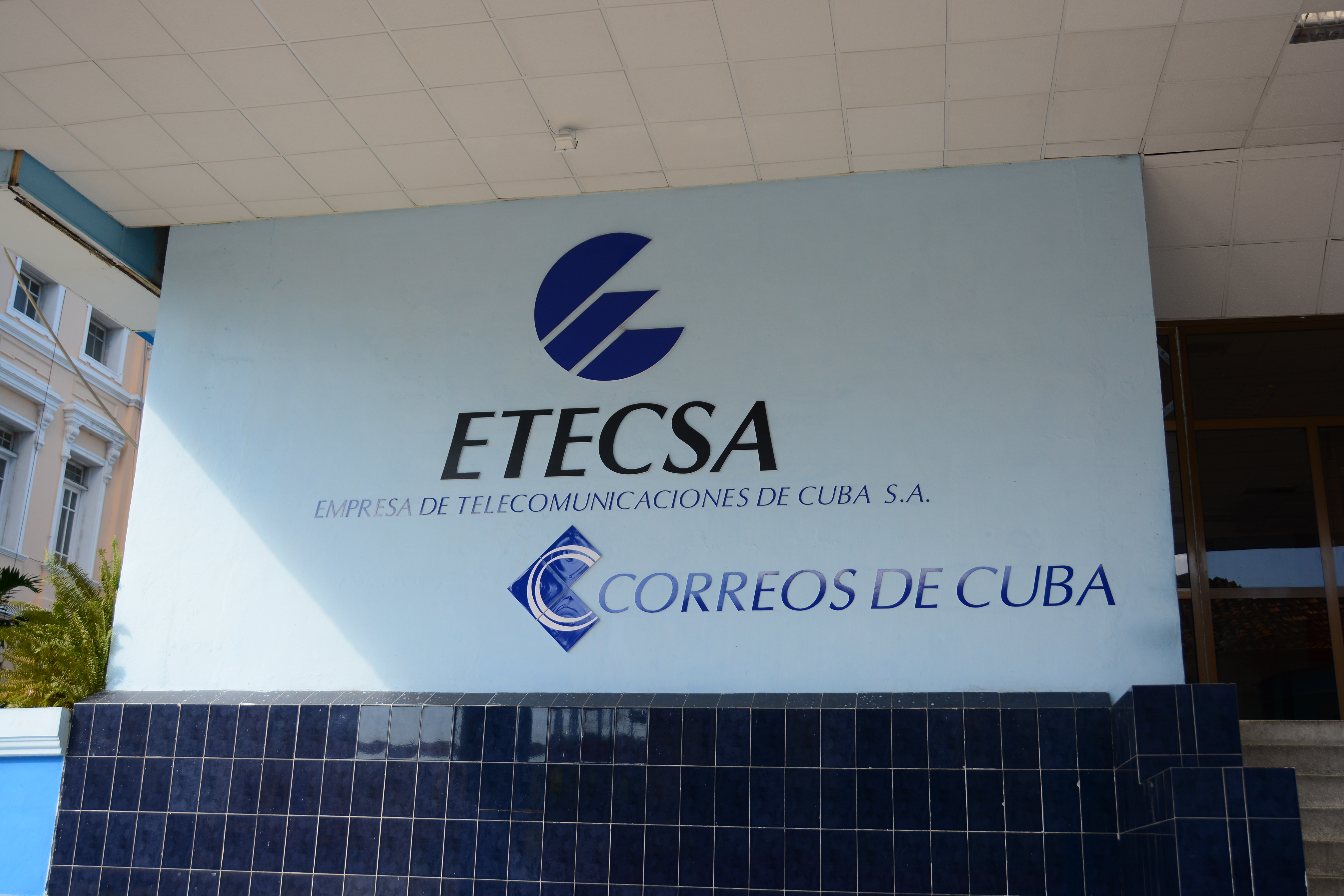 ETECSA main building in Santiago de Cuba